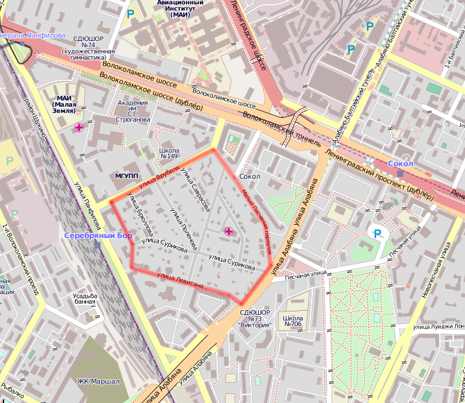 The plan os Sokol Settlement.